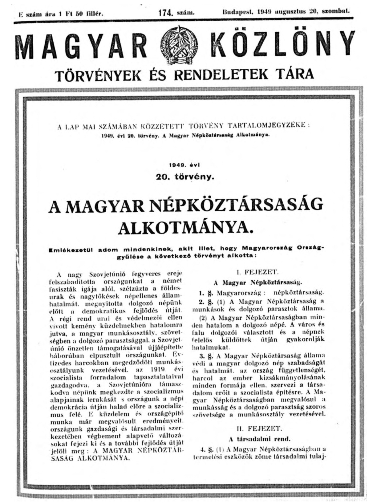 Constitution of Hungary, 1949, as it appeared in the official gazette.